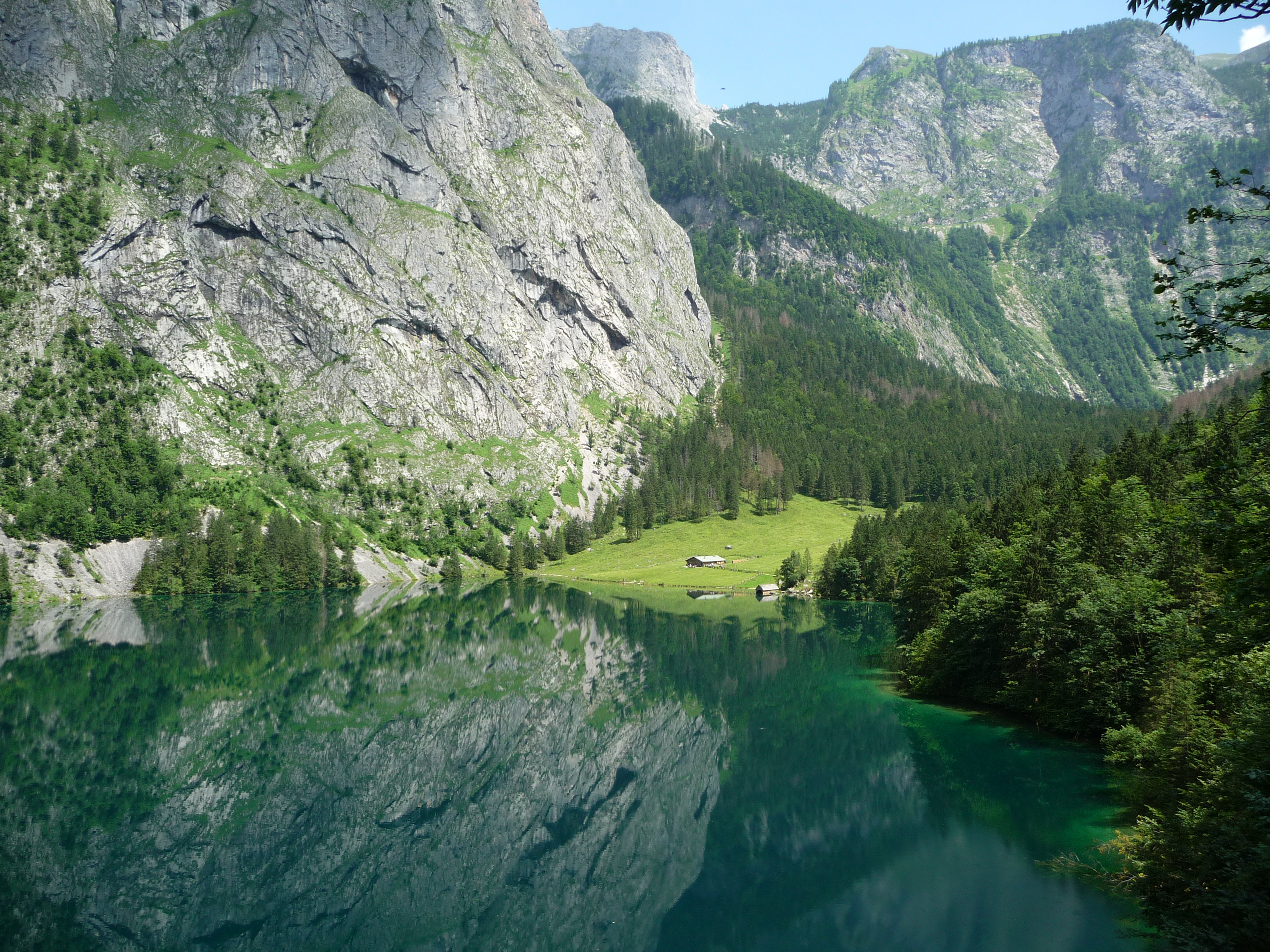 View to the eastside of the lake